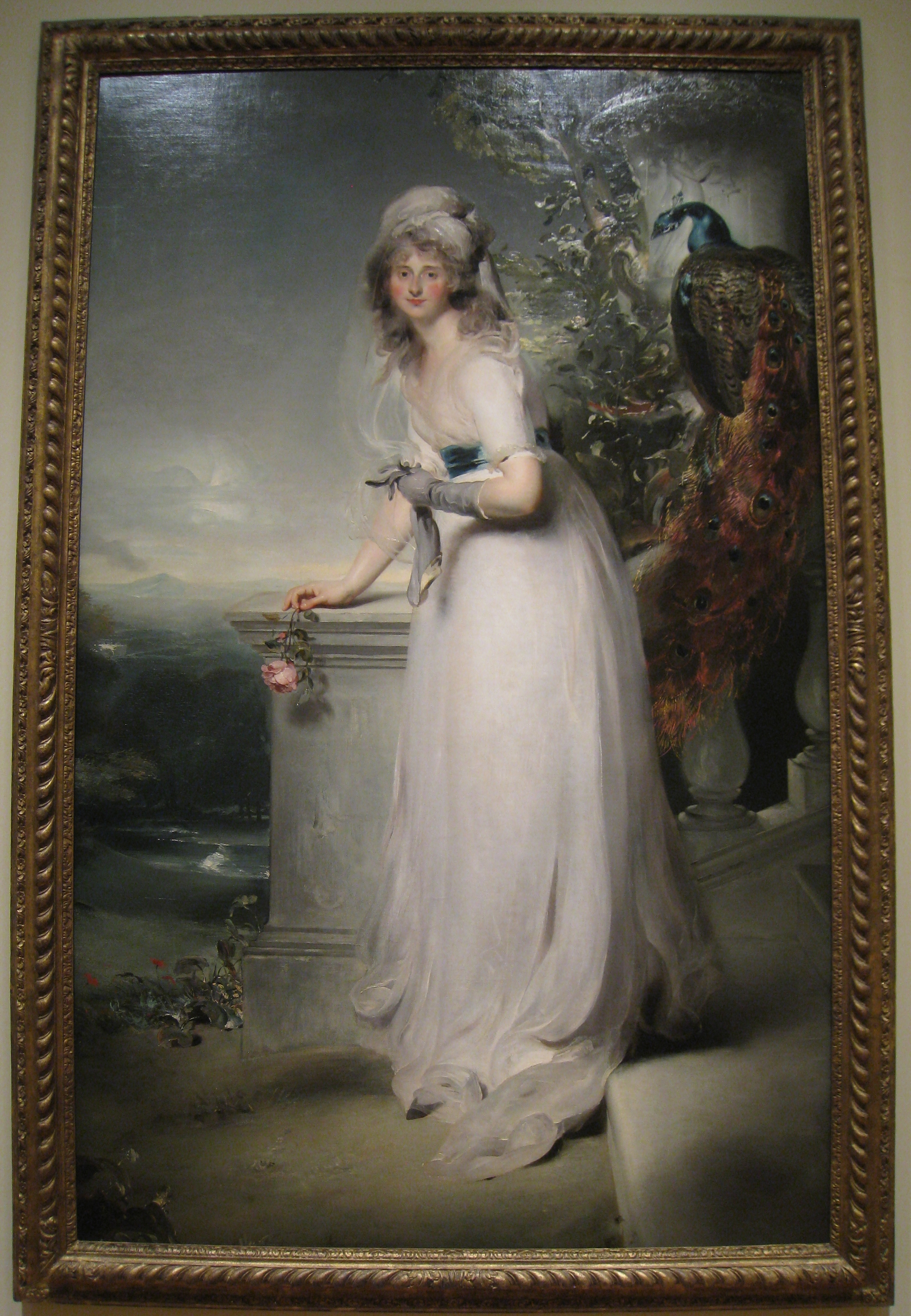 Lady Manners, née Catherine Grey, was the wife of Sir William Manners, 1st Bart., who, had he survived his mother, would have become 8th Earl of Dysart. According to the Cleveland Museum of Art, Lady Manners "rejected this portrait representing her as the goddess Juno, symbolized here by the peacock. To make up for the loss of sale, Lawrence exhibited the painting at the Royal Academy in 1794 'to be disposed of.' It did not sell and remained in his collection until after his death."